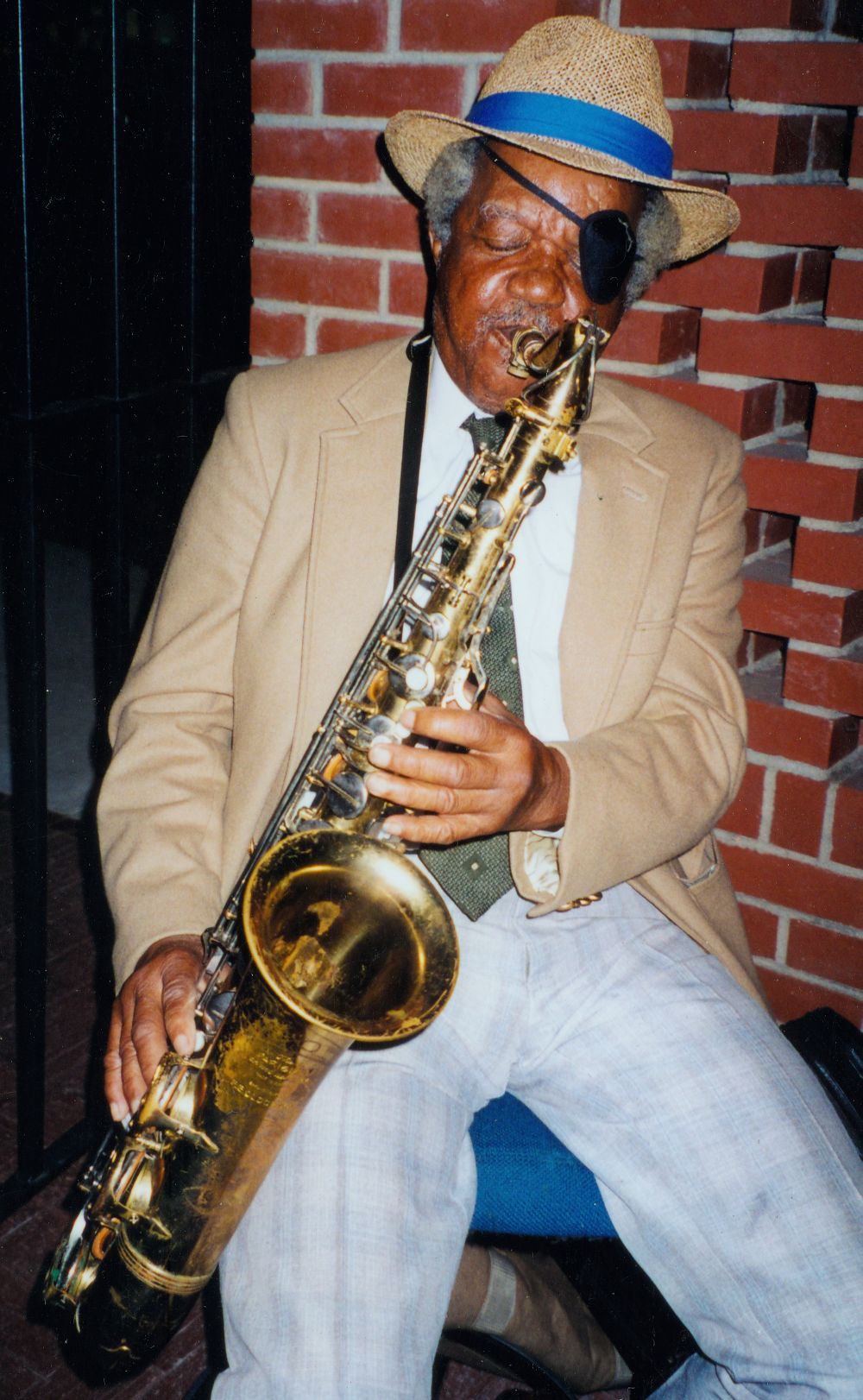 Pee Wee Moore playing in Raleigh, NC.